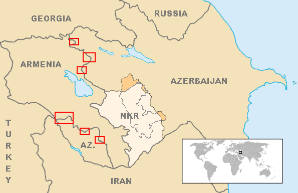 Location of.